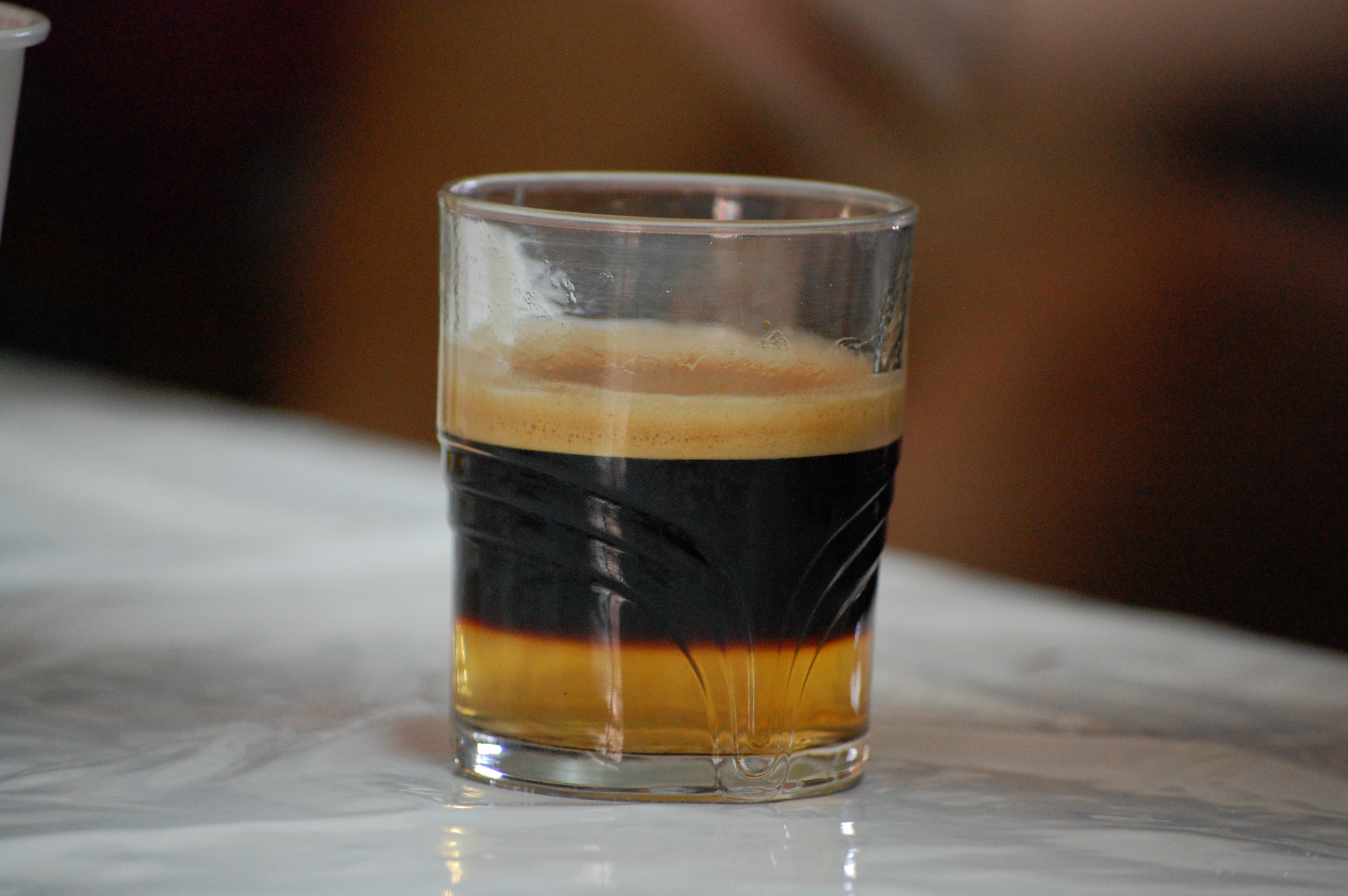 Carajillo